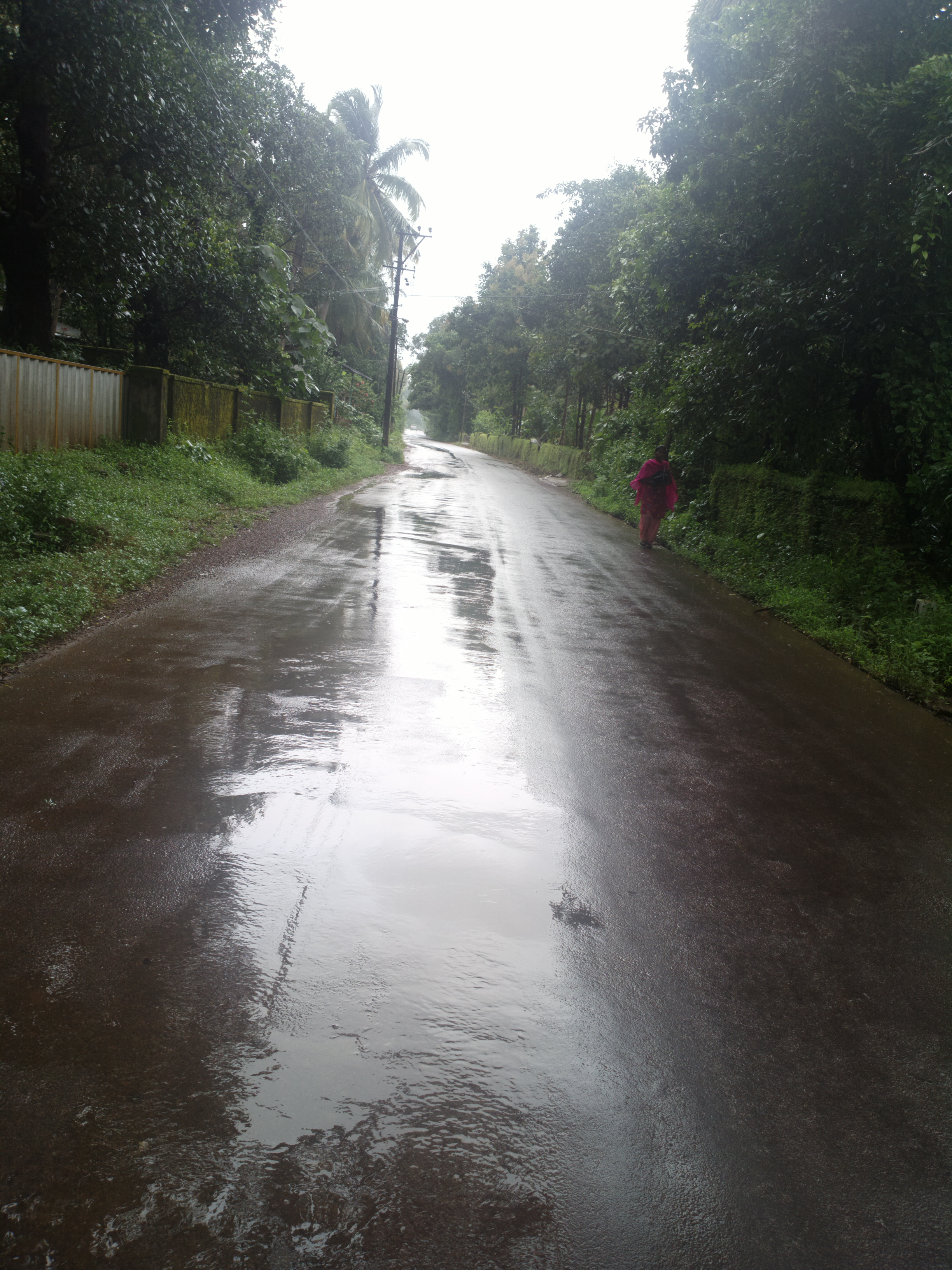 This is a road in Belmannu that connects it to Moodbidri.